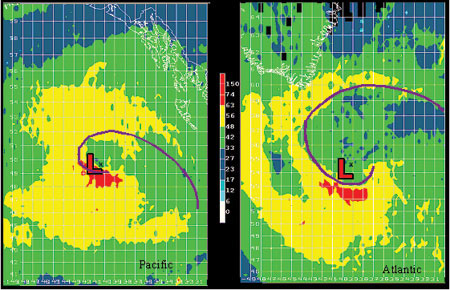 Mariner's Weather Log